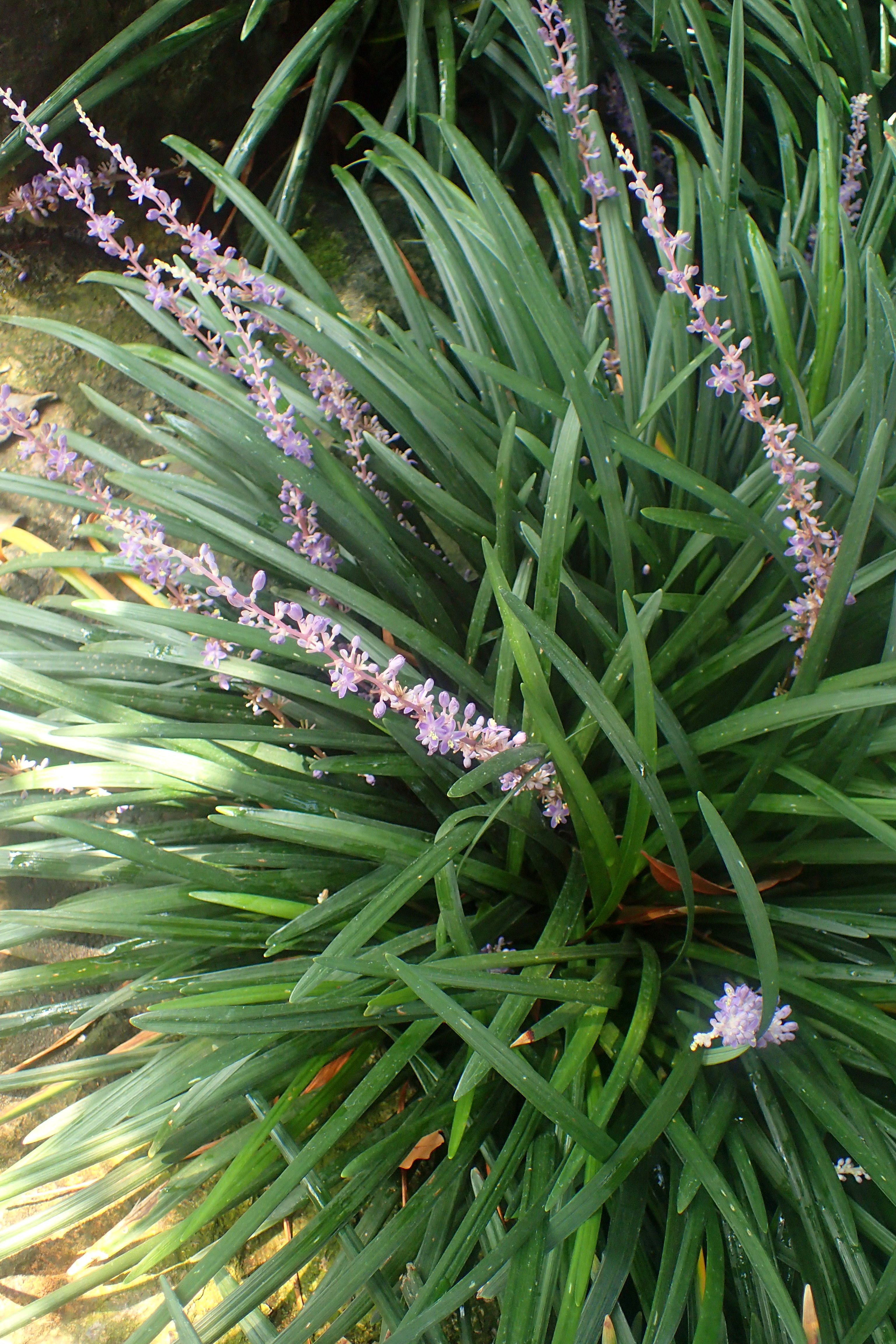 Liriope spicata at Garfield Park Conservatory